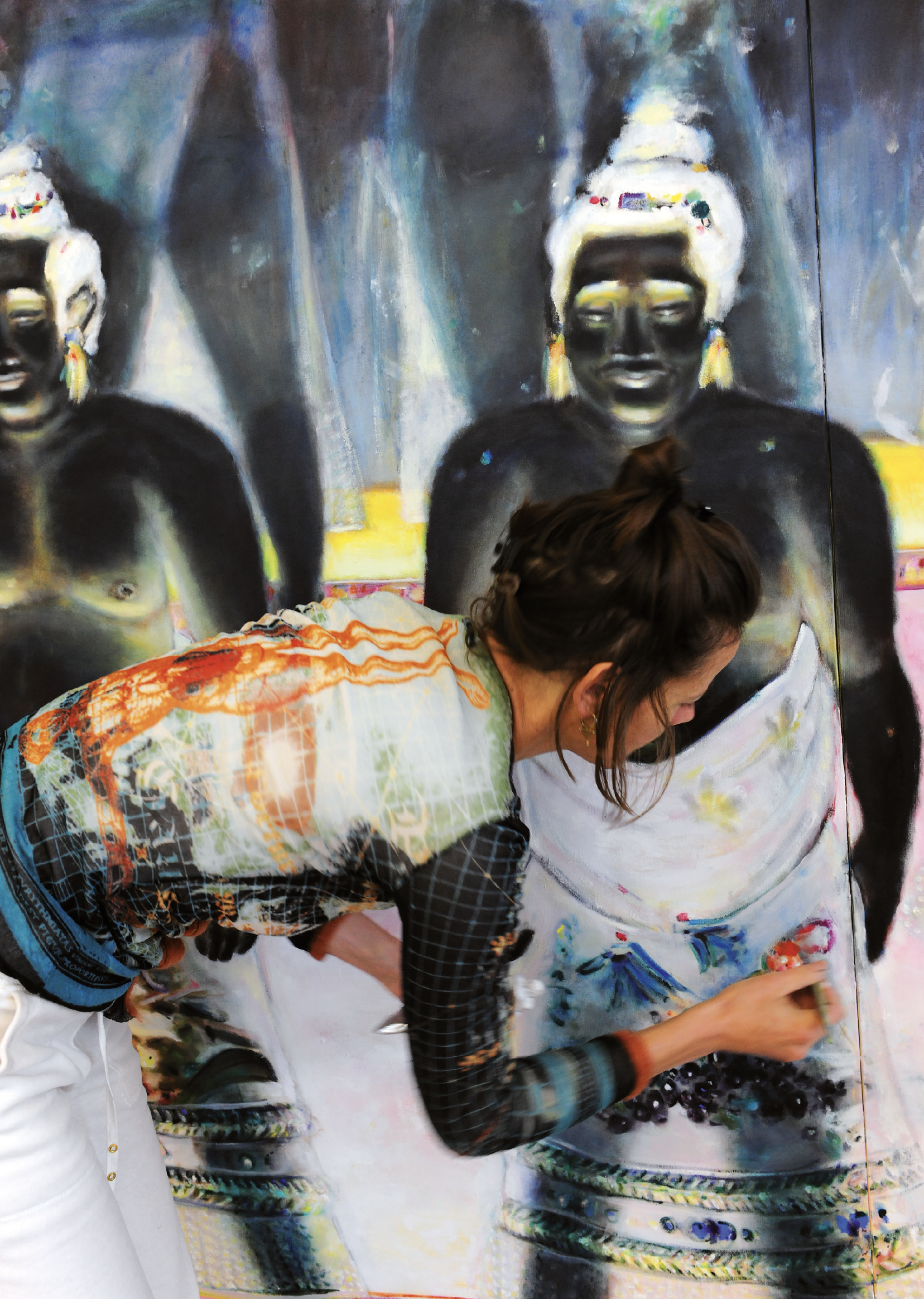 Mirjam Helfenberger